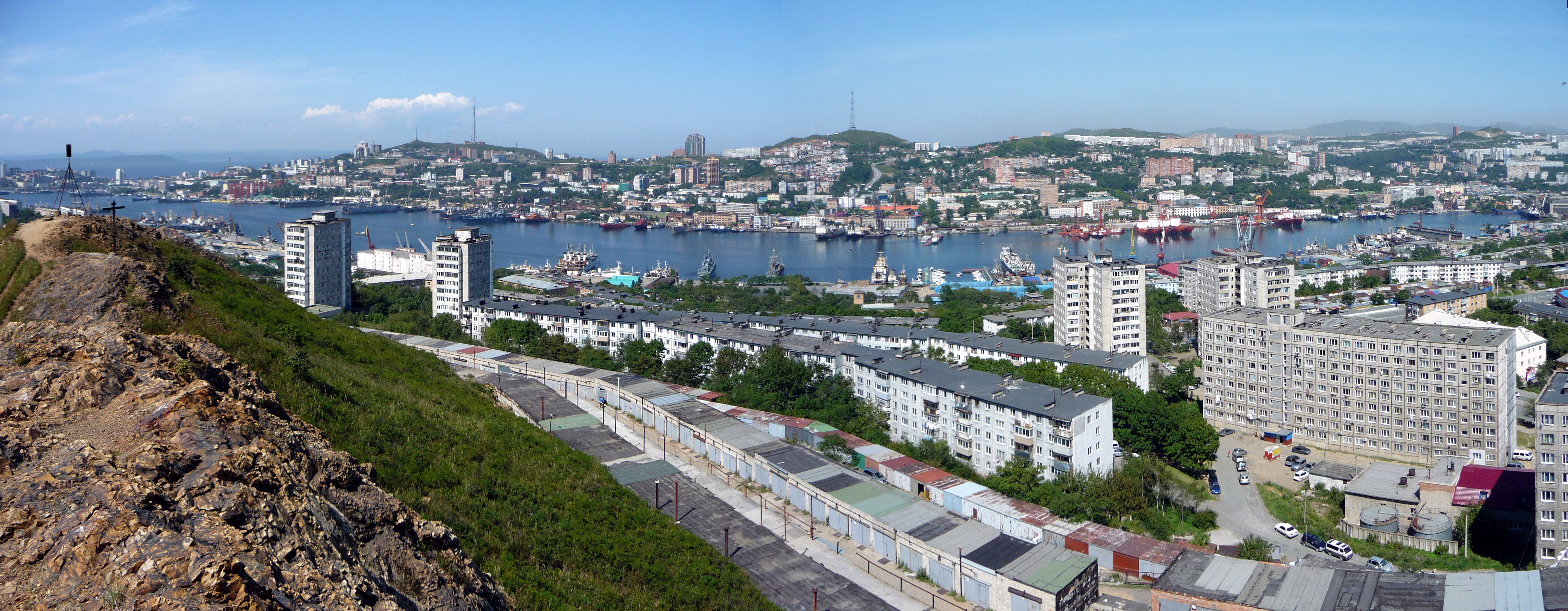 View of the Golden Horn of Vladivostok from the Burachok mountain (Primorsky Krai, Russia).